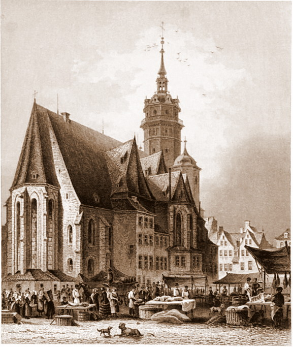 St. Nicholas Church, Leipzig: Joseph Maximilian Kolb, steel engraving from an image by Ludwig Rohbock (1820-1883)